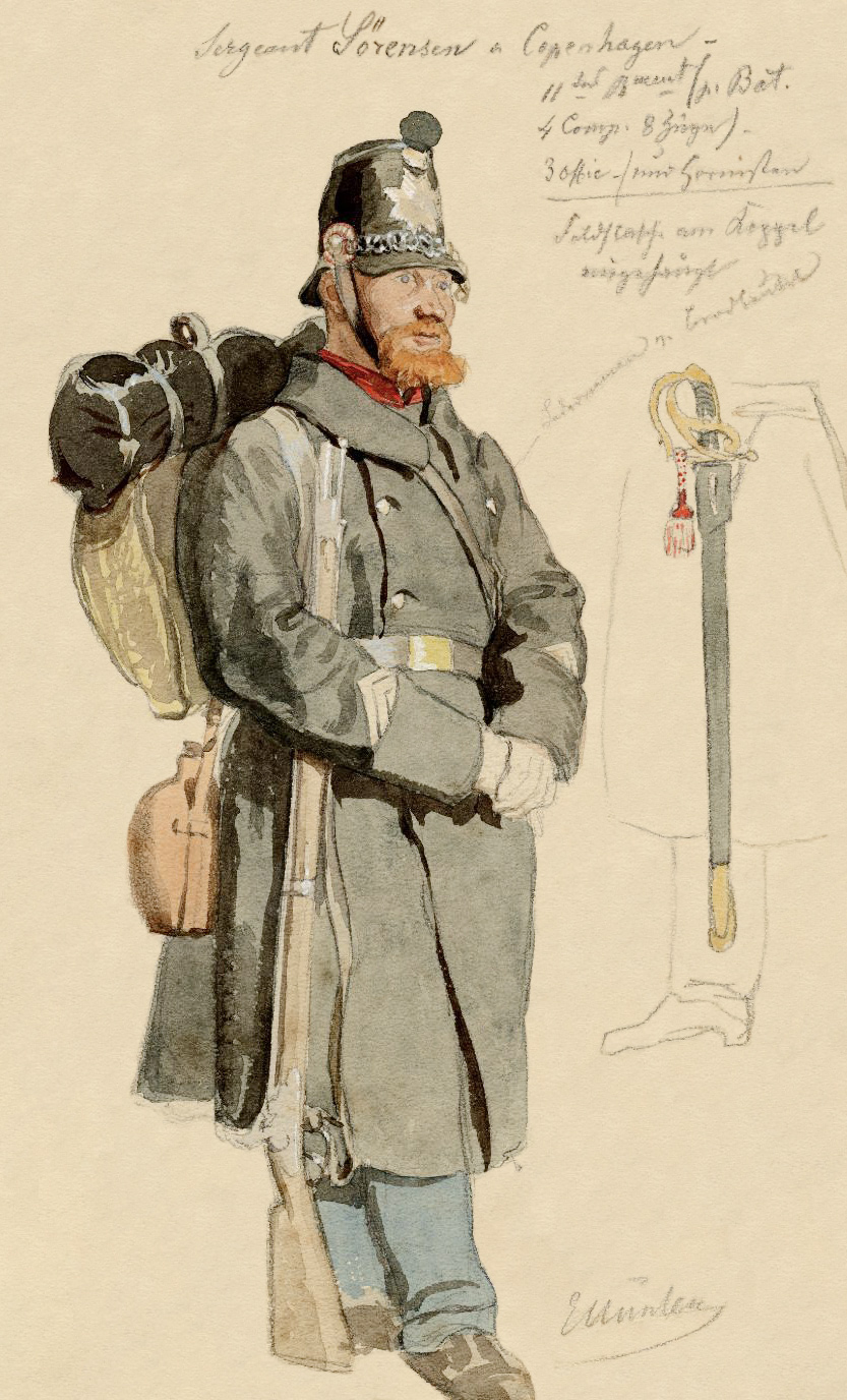 Danish soldier, study by Emil Hünten